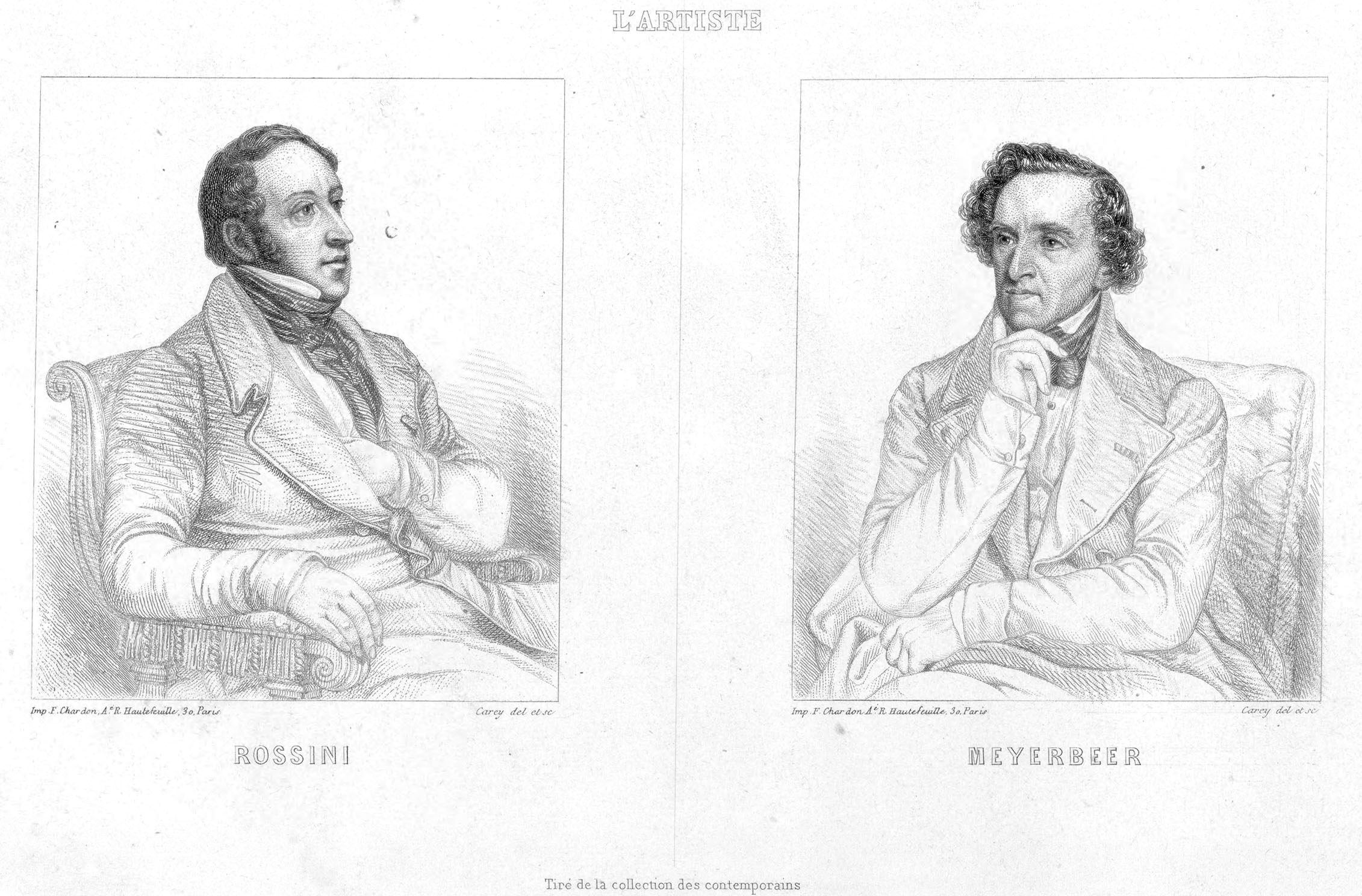 Portrait engravings of Gioacchino Rossini and Giacomo Meyerbeer by Charles Carey